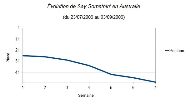 Evolution in the Australian singles chart of Mariah Carey's song, Say Somethin'.